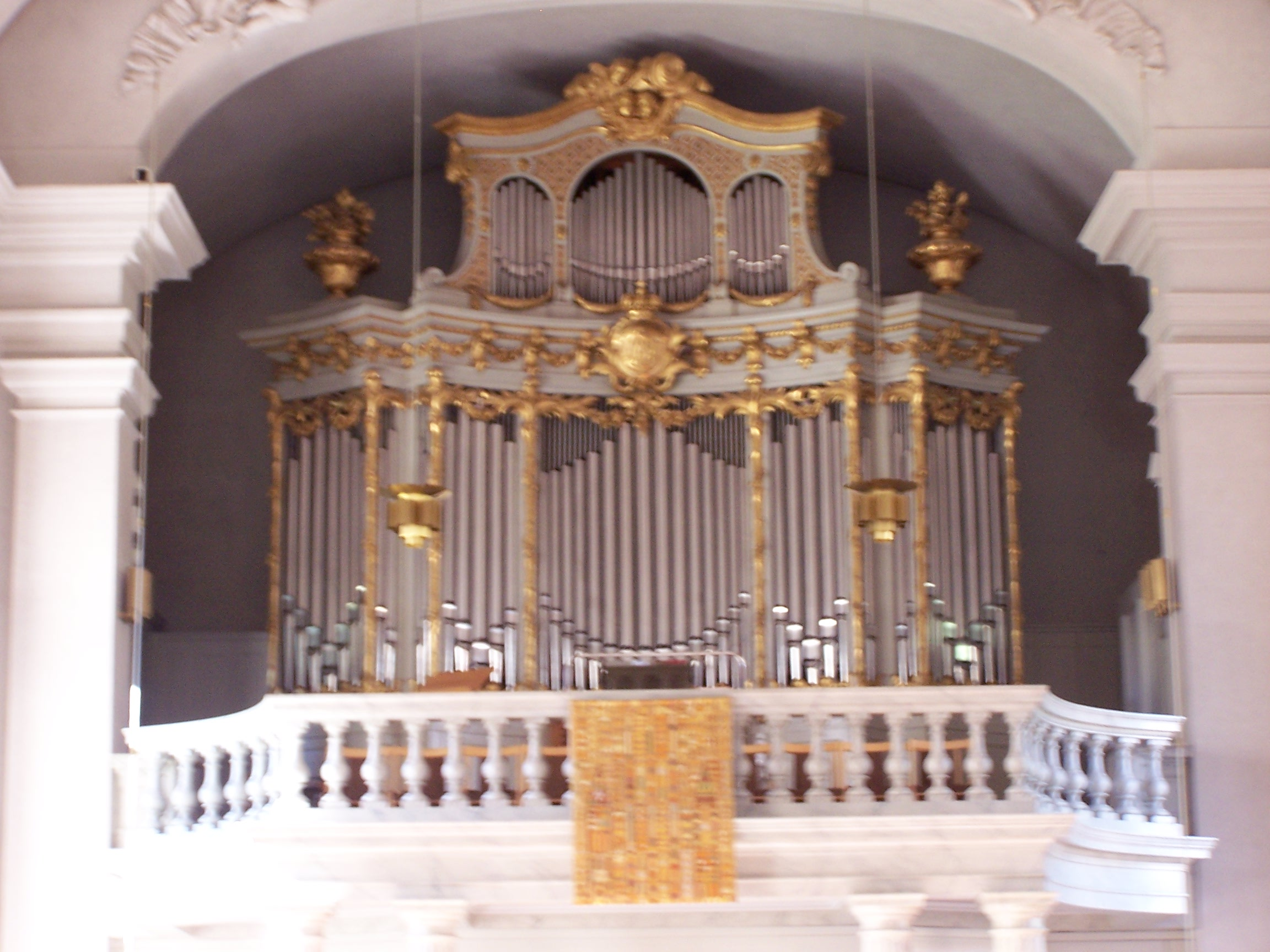 Adolf Fredriks kyrka, Stockholm - Organ